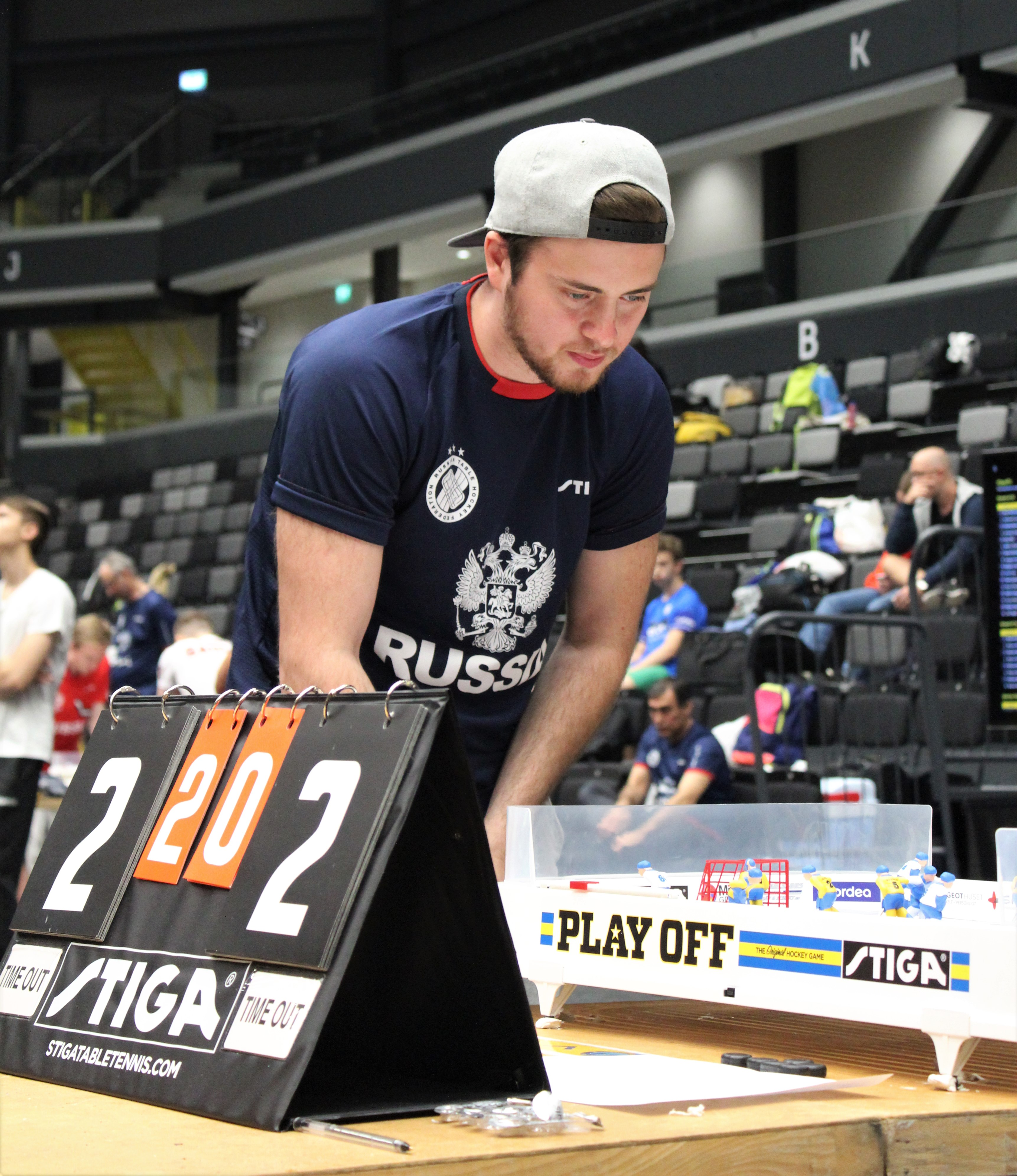 Maksim Borisov (RU), the future champion, playing in Eskilstuna at ITHF Table hockey European Championship - 2018